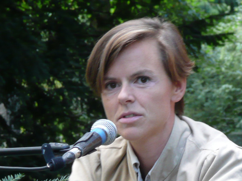 german writer Antje Rávic Strubel during an interview at the Erlanger Poetenfest 2011